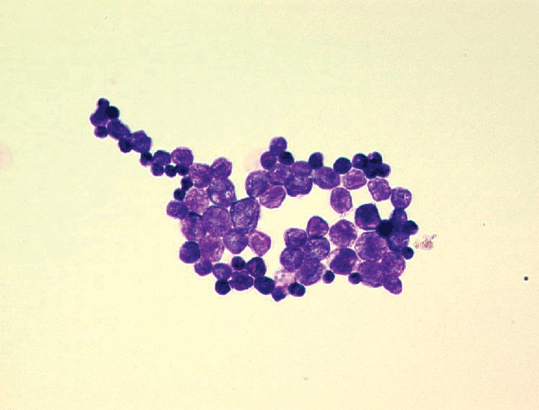 Prototheca wickerhamii, an infectious alga, isolated from the blood of a patient with algaemia. Gram staining shows the Gram-positive reaction.